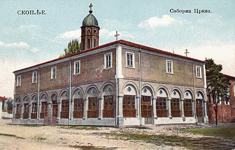 Assumption of Mary Church in Skopje, Macedonia